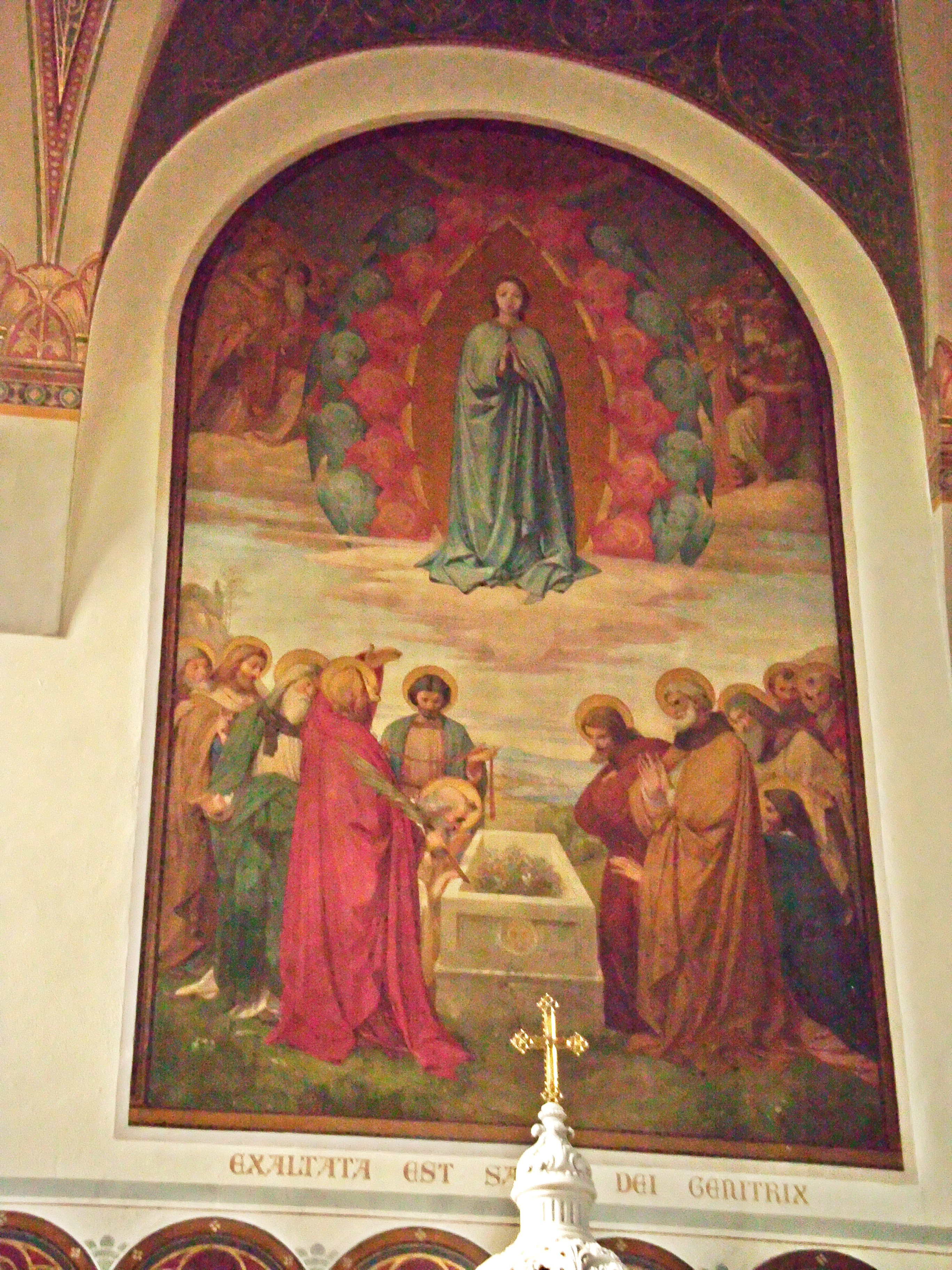 Mariä Aufnahme in den Himmel, Hochaltargemälde von Eduard Jakob von Steinle (1810-1886) in der fürstlichen Hauskapelle von Schloss Löwenstein in Kleinheubach